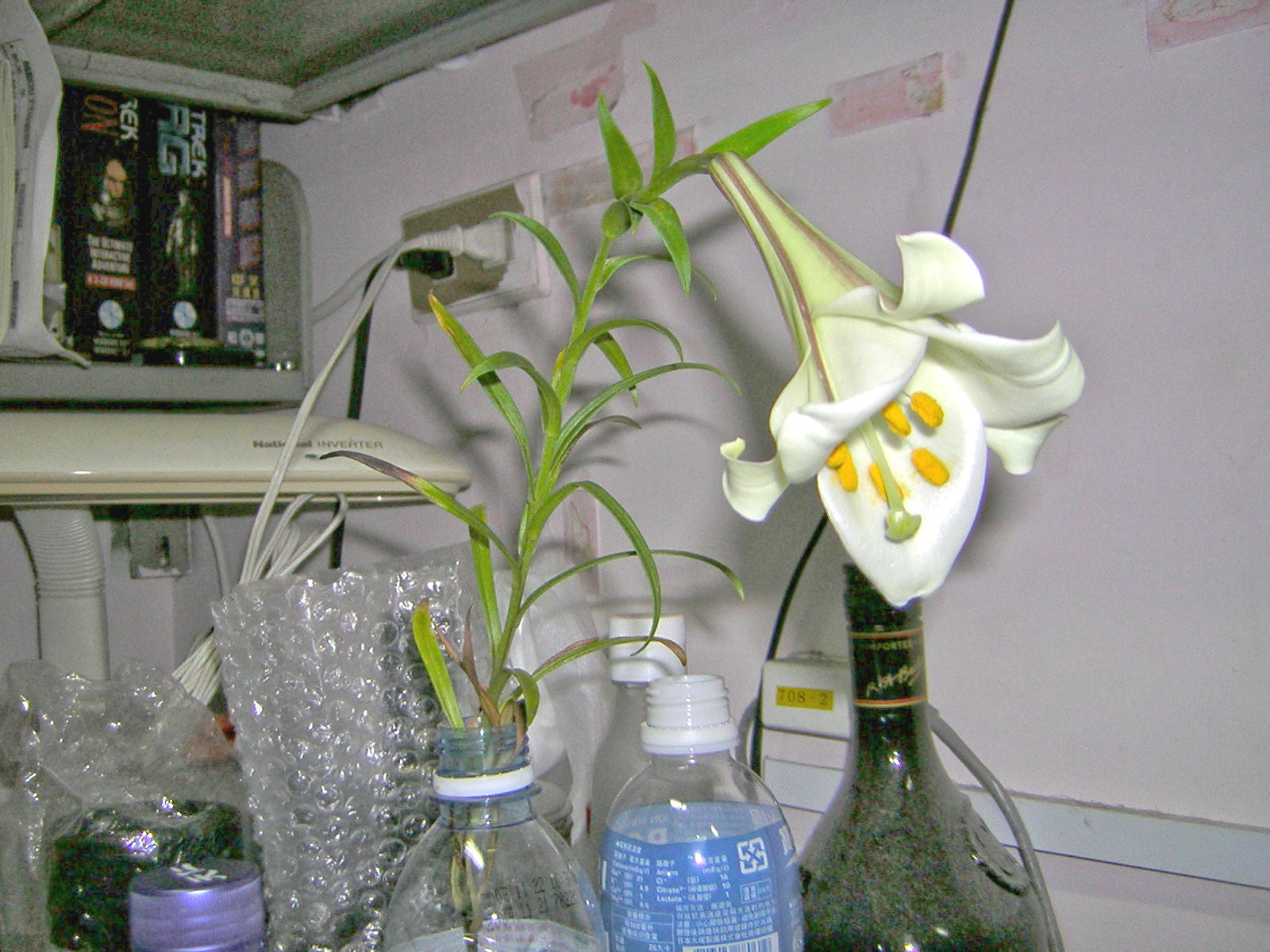 A Blooming Formosa lily originated from Yilan County photographed at my dorm of medical college.